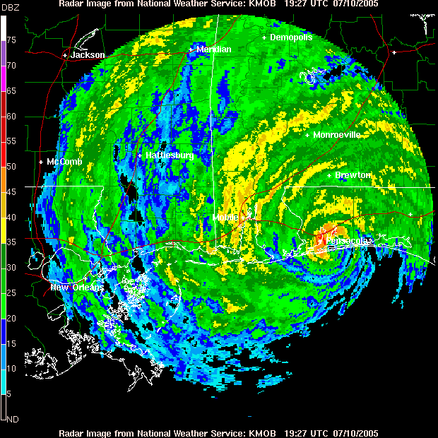 A radar image of Hurricane Dennis.